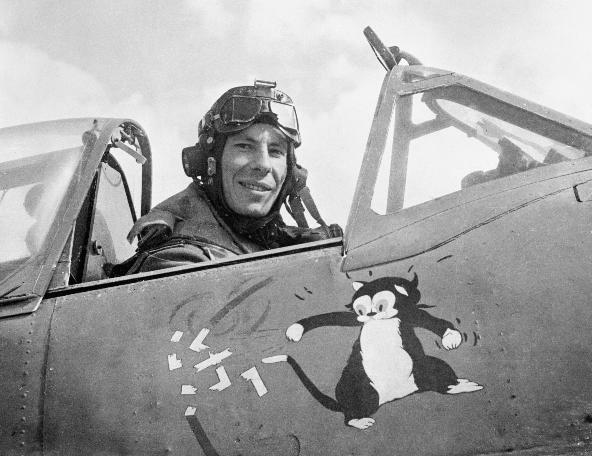 Wing Commander Ian "Widge" Gleed, leader of No. 244 Wing, in his Supermarine Spitfire Mk VB at an airfield in Tunisia, April 1943. Days later he was shot down and killed by Messerschmitt Bf 109s over Cape Bon. Wing Commander I R "Widge" Gleed, leader of No. 244 Wing RAF, sitting in his Supermarine Spitfire Mark VB, AB502 'IR-G', at an airfield in Tunisia. Below the cockpit is the same "Figaro the Cat" cartoon which Gleed had painted on his aircraft in the United Kingdom. After serving as Wing Commander Operations at HQ Fighter Command, Gleed was posted to the Middle East in January 1943. He was attached briefly to No. 145 Squadron RAF for operational experience, then led 244 Wing through the fighting in Libya and into Tunisia. On 16 April 1943, while leading a patrol to attack a formation of enemy transport aircraft over Cape Bon, he was shot down and killed by Messerschmitt Bf 109s of JG 77. His final victory score was 16 enemy aircraft destroyed.